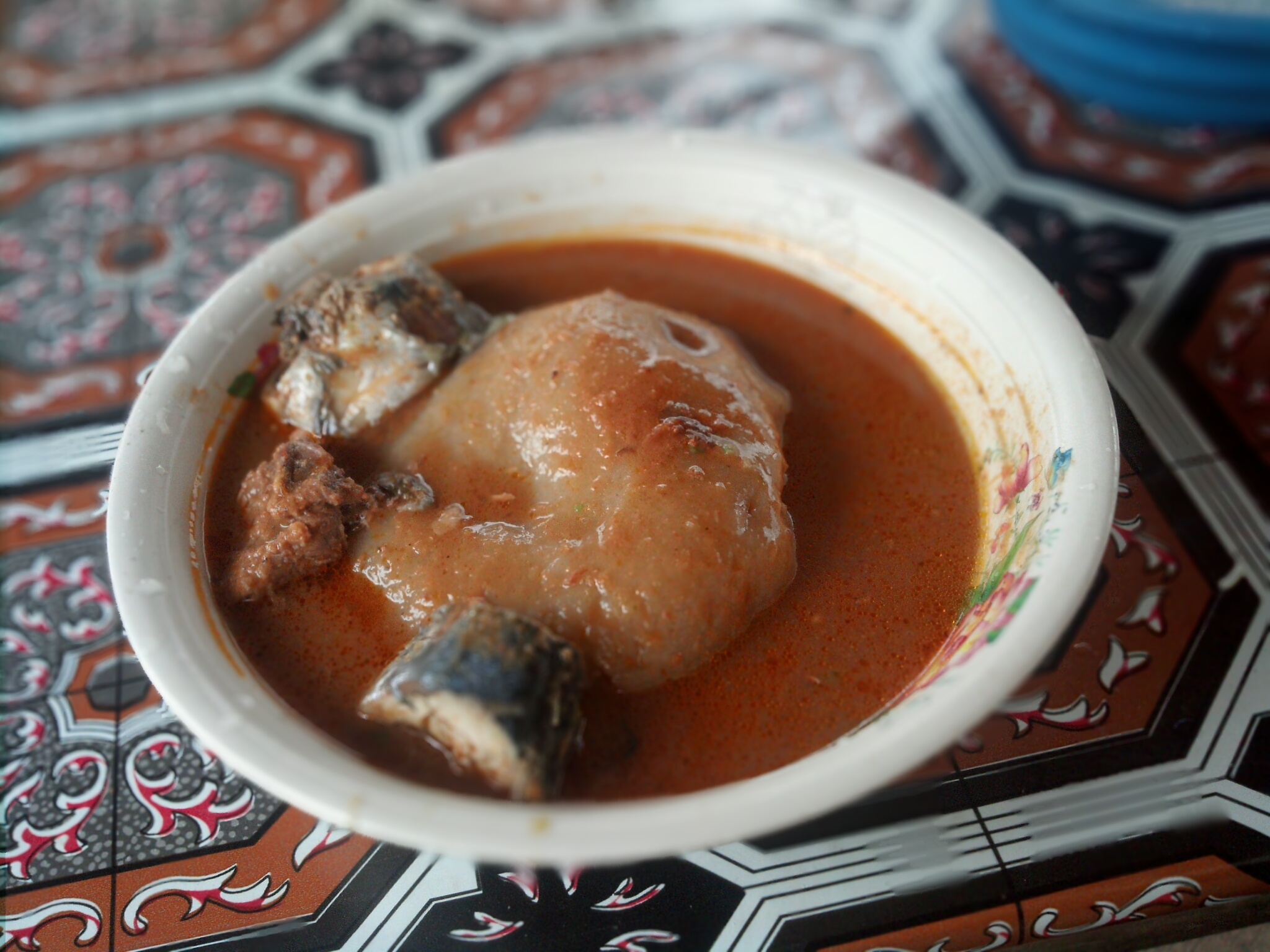 Kokonte also known as "Face the Wall" is made from dried cassava. This food is really popular among the people of Northern Ghana This is an image of food from Ghana